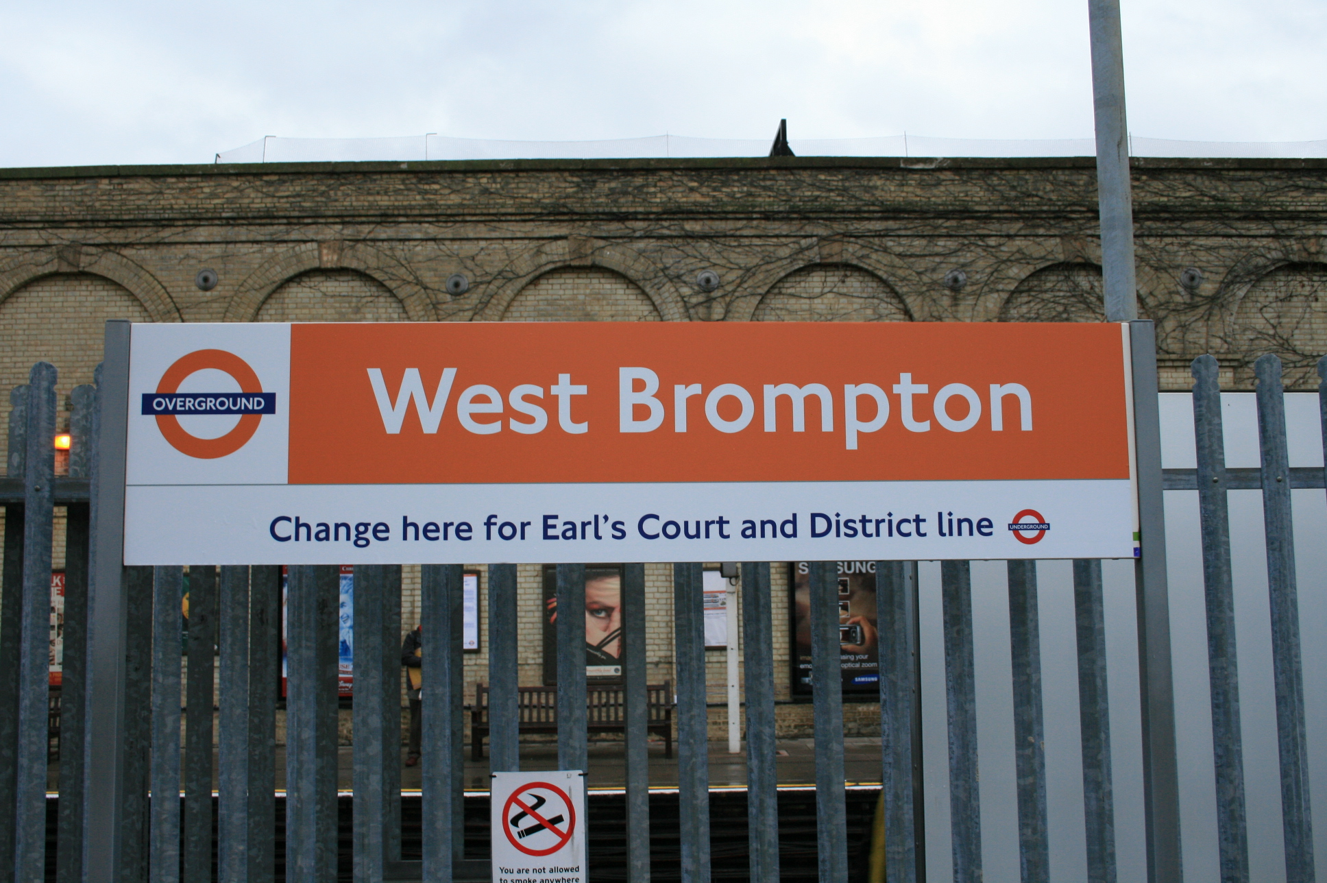 Example of London Overground signage at West Brompton Station, London, UK